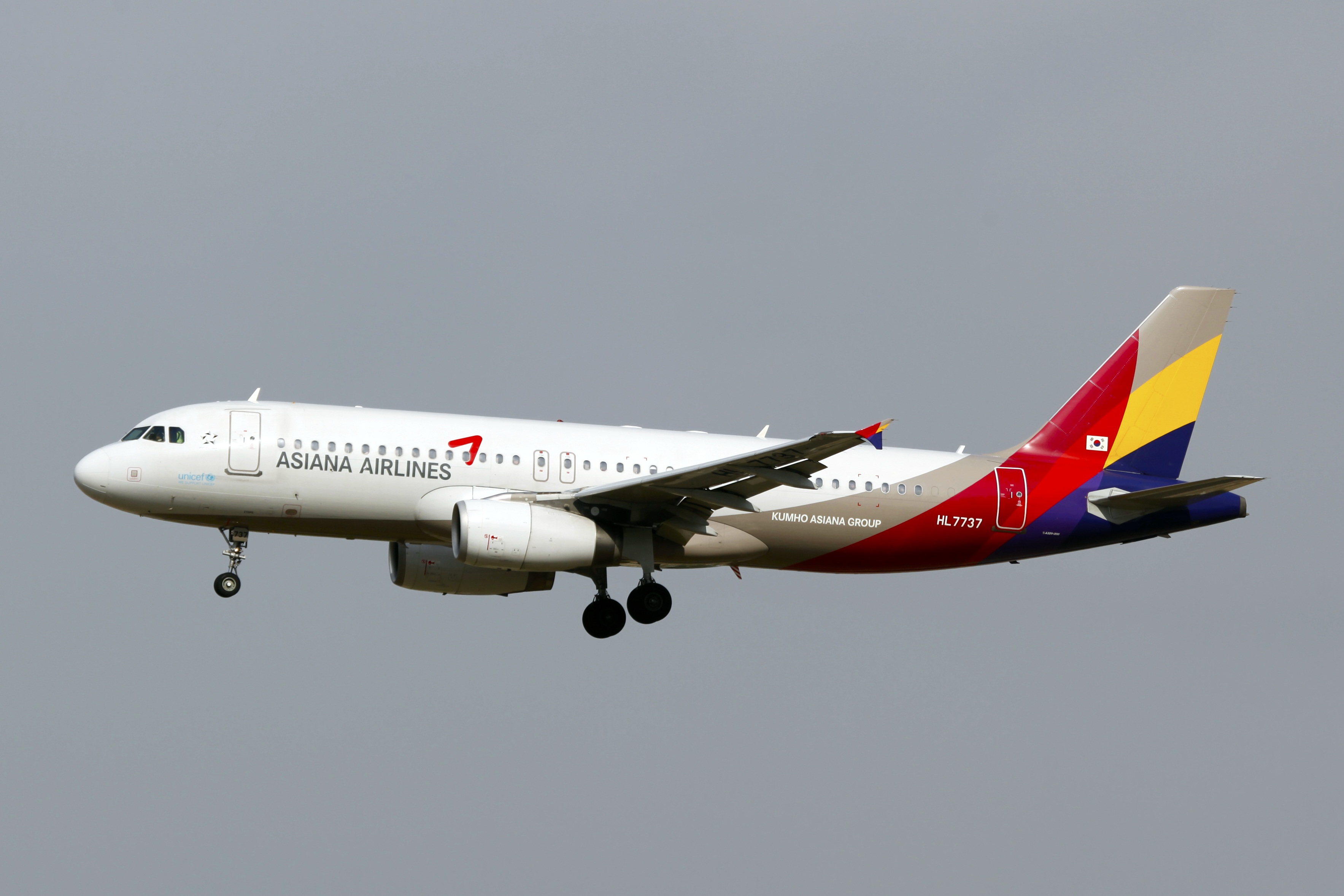 HL7737 | Asiana Airlines | Airbus A320-232 | Beijing Capital International Airport [PEK]